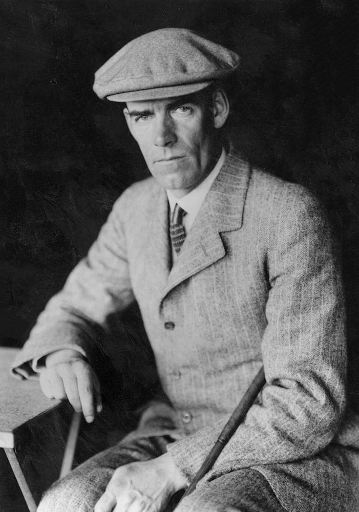 circa 1920: British golfer George Duncan (1883 - 1964).